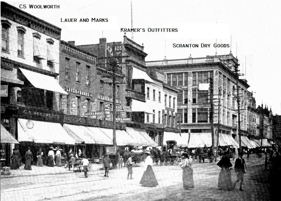 The 300 Block of Lackawanna Ave., Scranton, PA, including the C. S. Woolworth store at 319 Lackawanna Avenue. Building occupants are identified along the street. This was after the original location on Penn Ave, and prior to the expansion at this location in Dec 1900. ca.1985-1900.